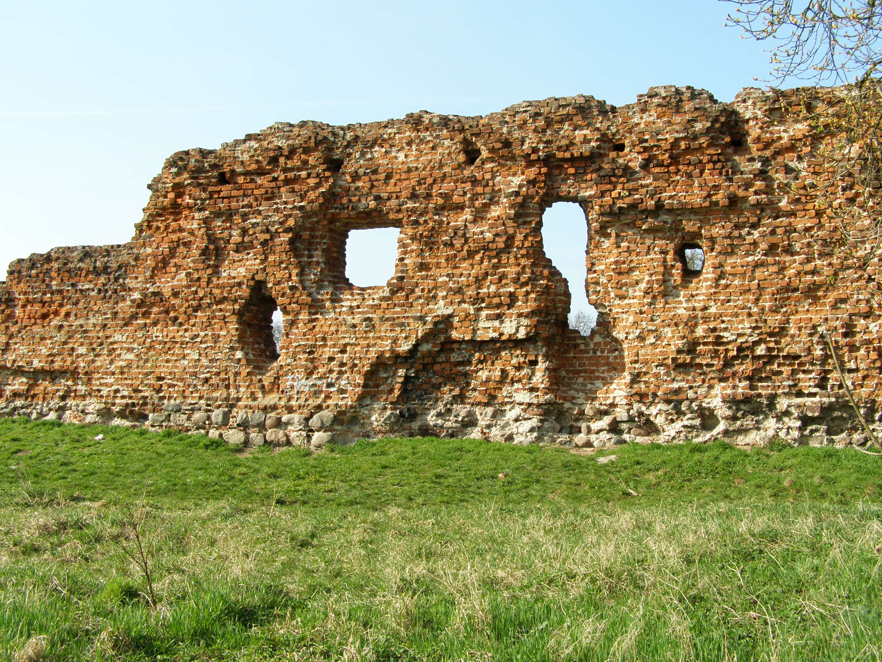 Ruins of the castle in Szubin